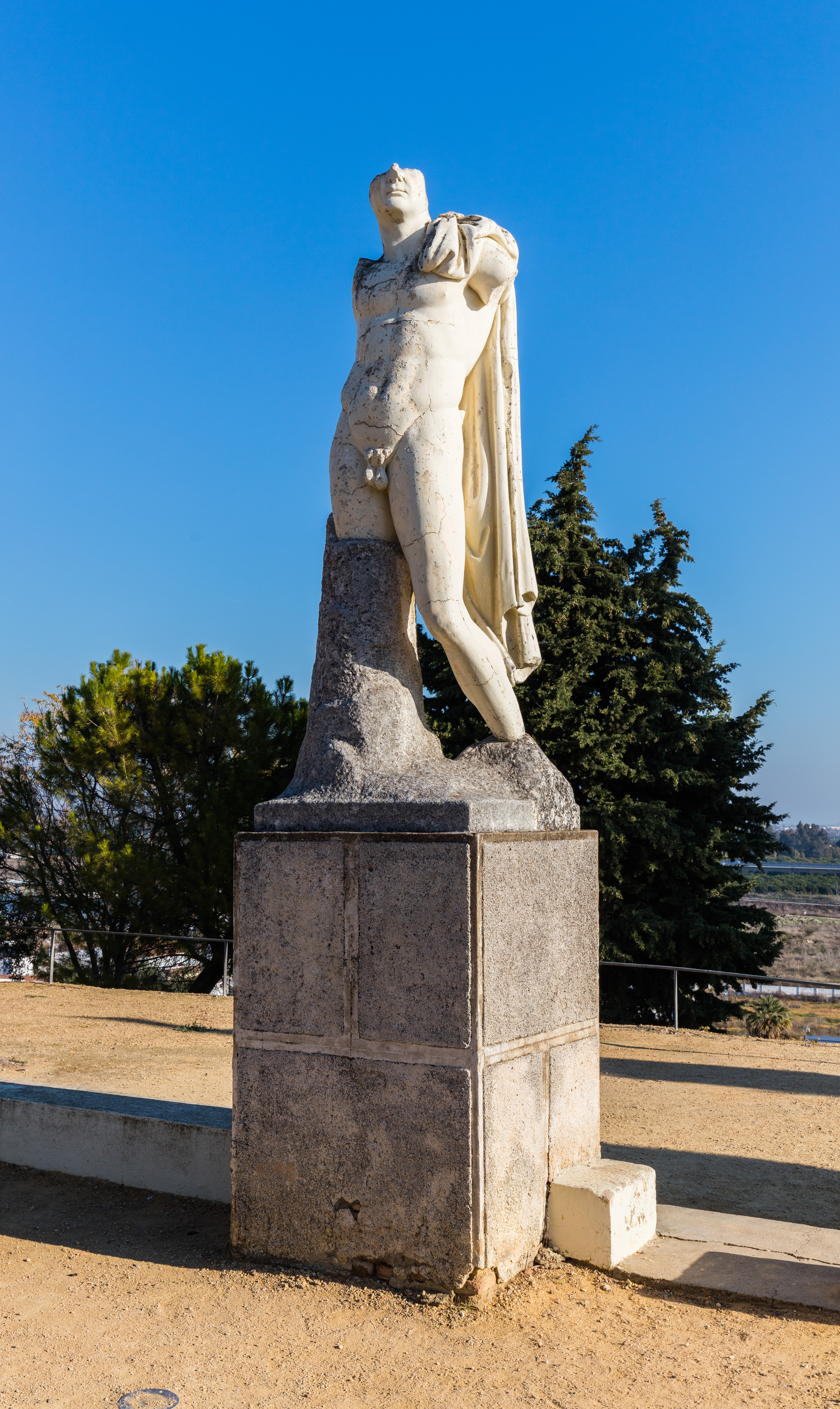 Replica of the Heroic Sculpture of Trajan, ancient roman city of Itálica, Santiponce, Seville, Spain